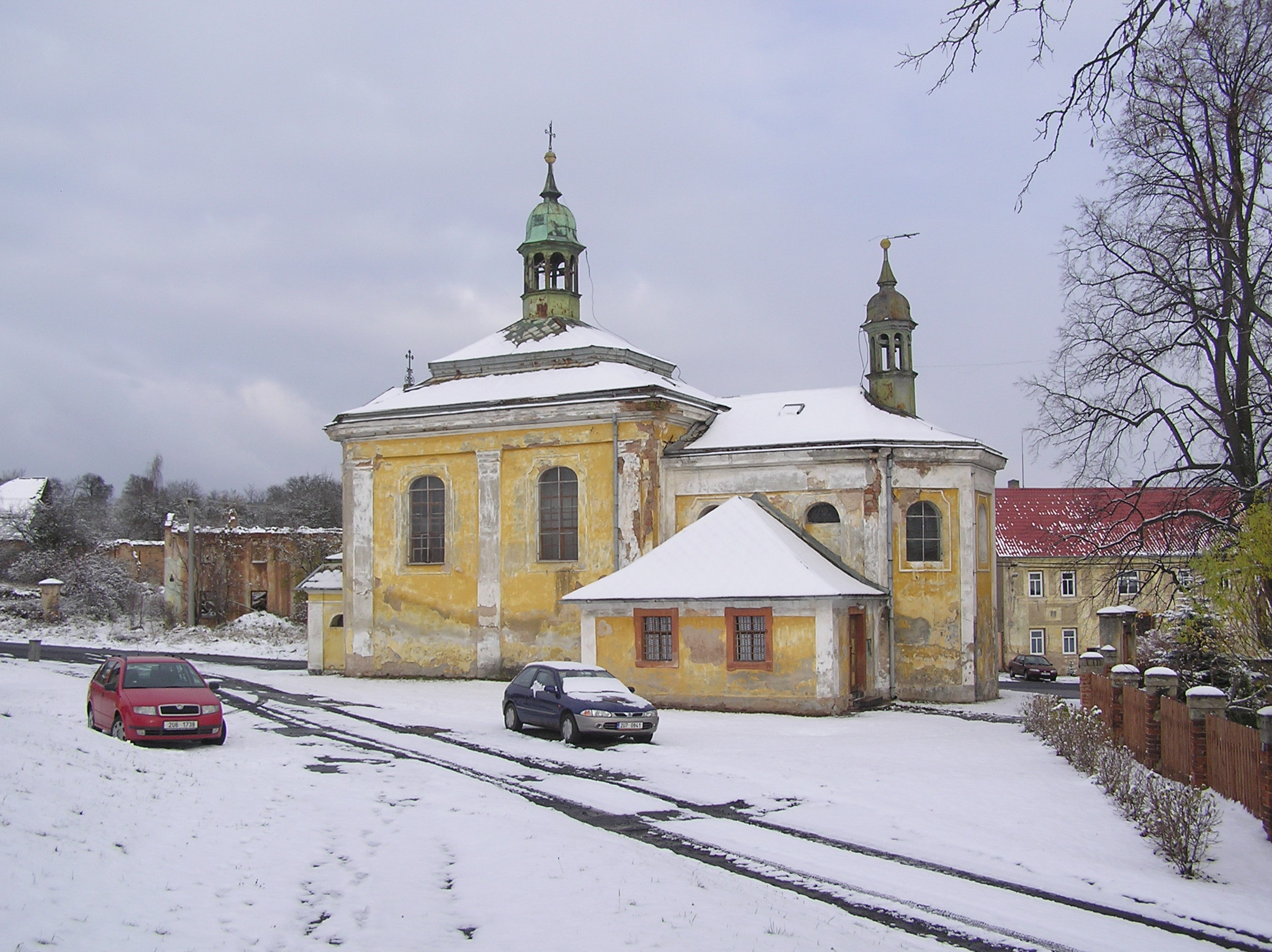 Church of St. Anne in Malměřice